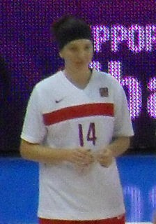 Tereza Pecková; in: Japan - Czech Republic match at 2010 FIBA World Championship for Women, Brno, Czech Republic